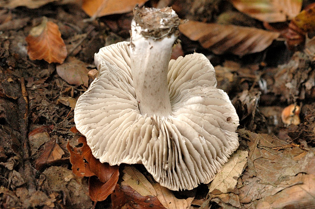 Tricholoma spec. from Commanster, Belgium. The determination of the species shown in this picture has been verified.